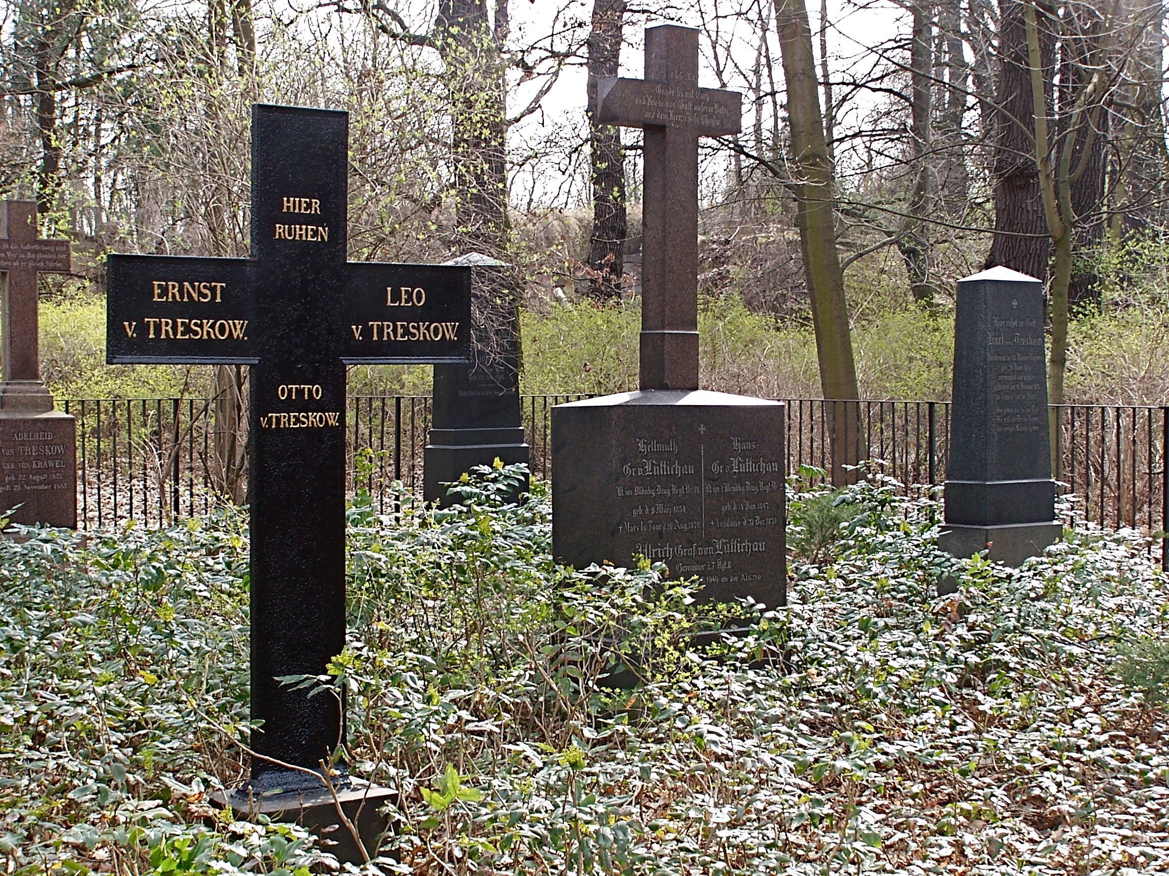 Family grave of family von Treskow-Friedrichsfelde